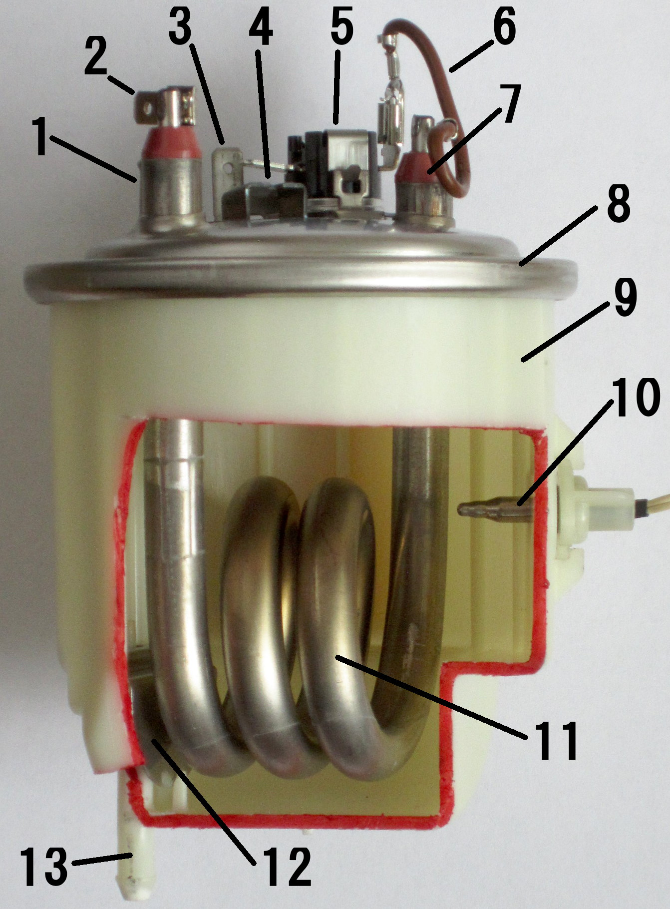 Cutaway of a boiler in the inside of a Senseo coffee pod machine. 1) (obstructed) AOutlet towards vent / brew chamber 2) First Connector of Heating Pipe 3) Earth Connector 4) Holder 5) Thermoswitch (Overheat Protector) 6) Connection Cable 7) Second Connector of Heating Pipe 8) Stainless Steel Lid 9) Vessel made from Glass Fiber enhanced Plastic 10) Temperature Sensor for the Control Electronics 11) Stainless Steel Heating Pipe 12) Chilled Inlet 13) Inlet from Pump